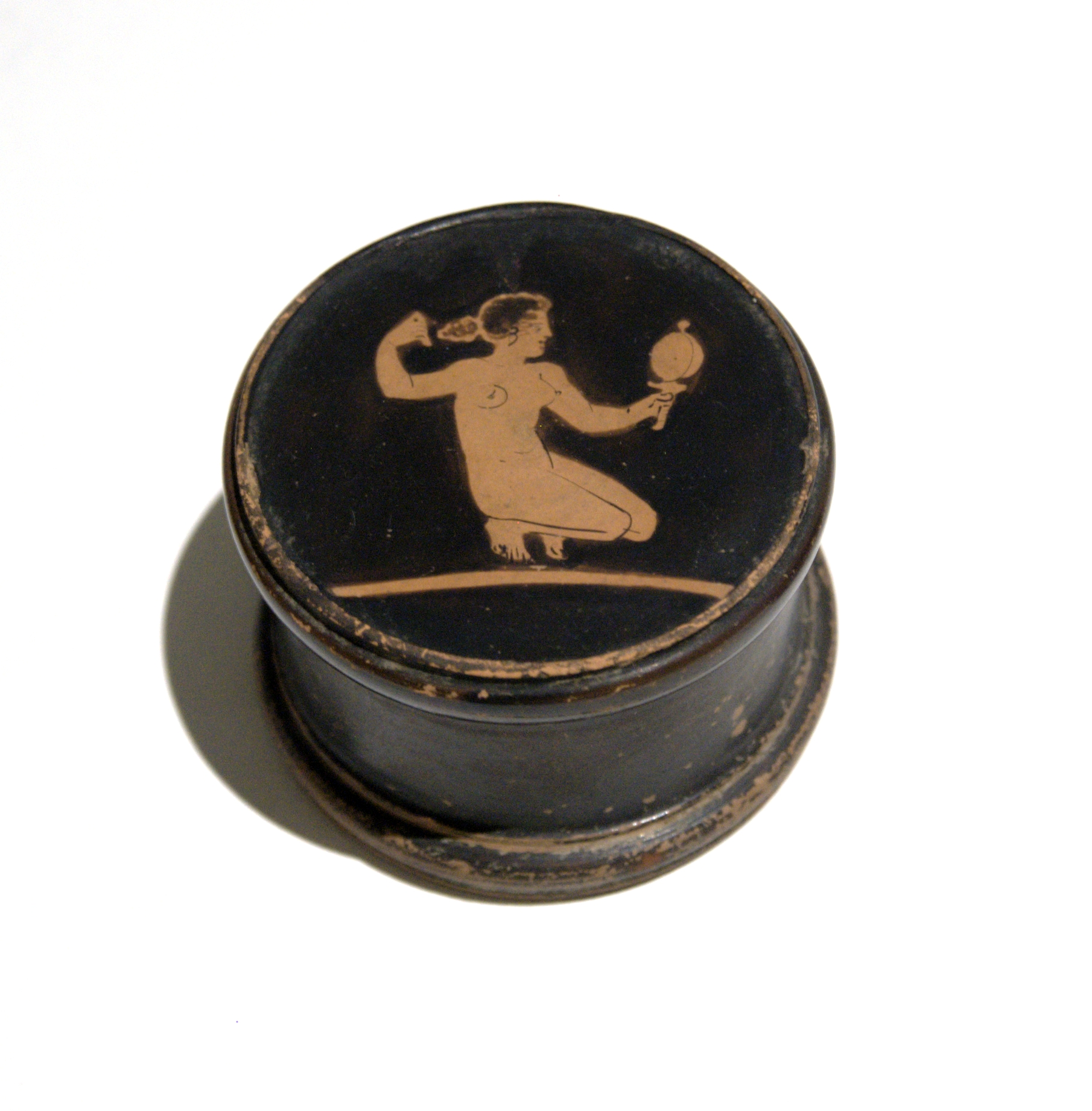 Woman doing her hair. Attic red-figure pyxis, 420–410 BC. From Kertch.